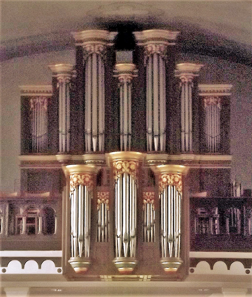 Former Breidenfeld-Pipe-Organ in Nalbach Saarland, Germany